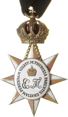 Badge of the Military Institution of Elisabeth and Therese